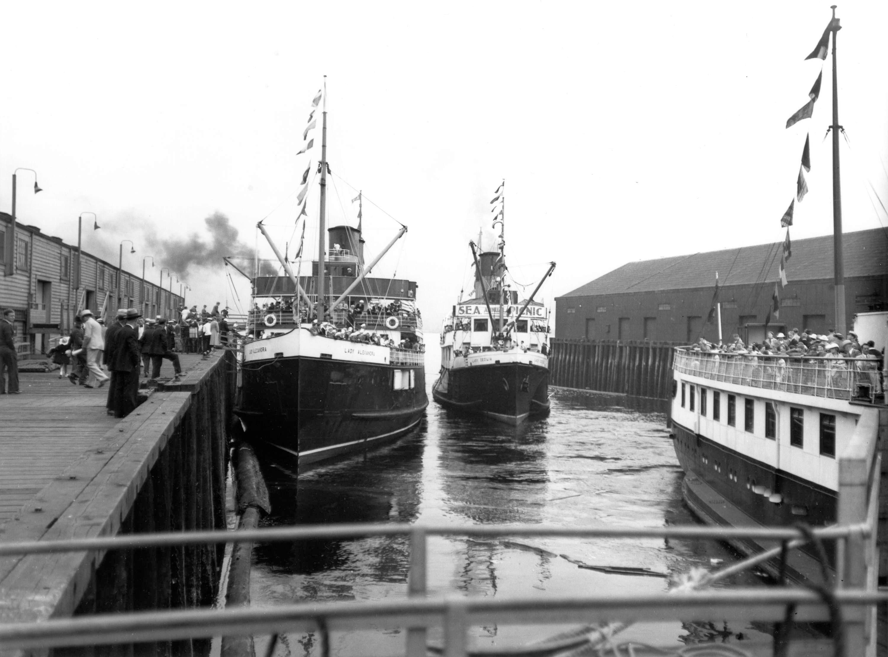 Picnic excursion for Spencer's Employee Association - "Lady Alexandra", "Lady Cecilia" and "Lady Cynthia", all three vessels shown at Union Steamship Co. dock in Vancouver, BC